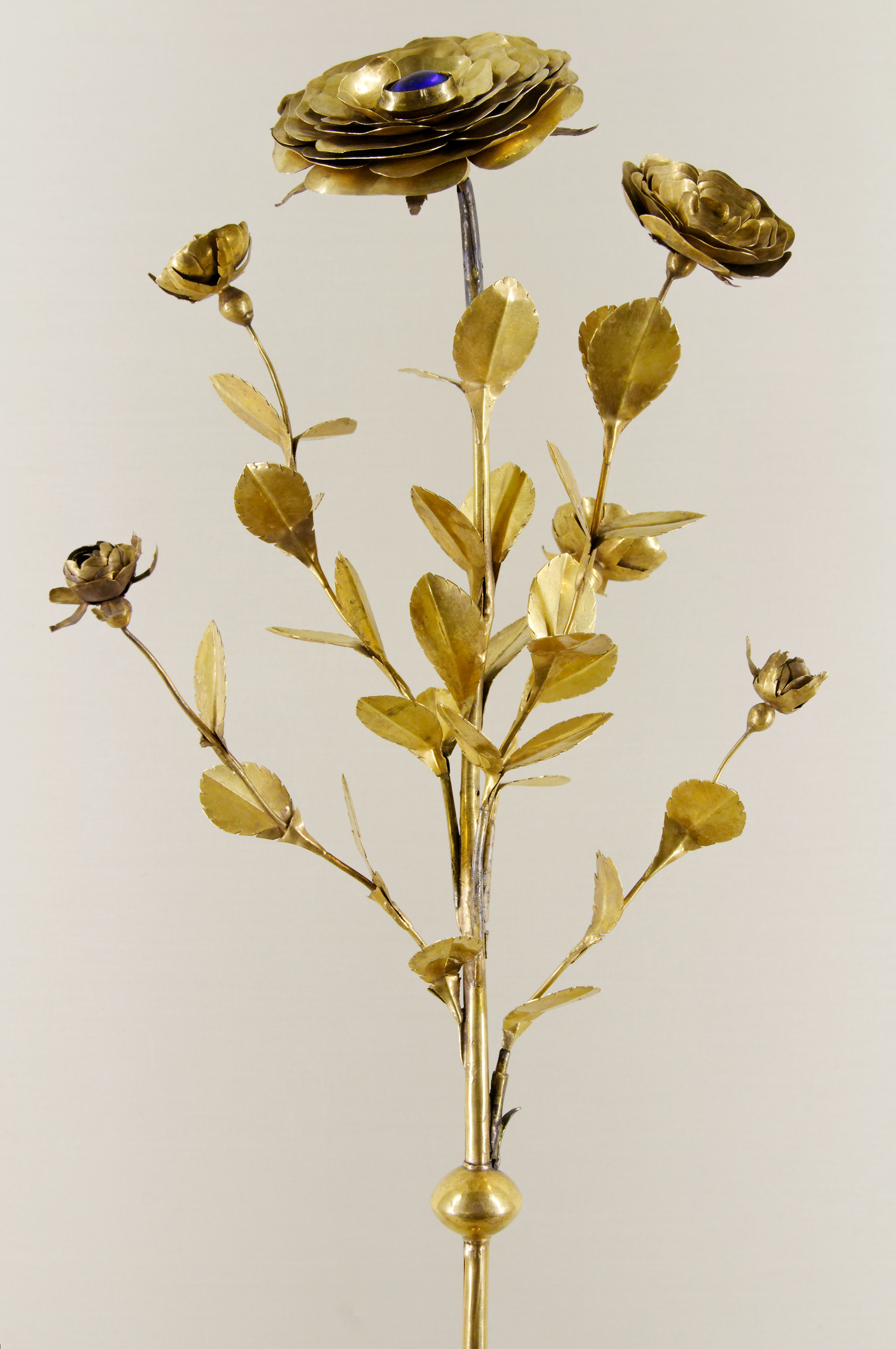 Detail of the Golden Rose commissioned by Pope John XXII (1316–1334) and given to Rudolph III of Nidau. Rose: Avignon, 1330; knot with filigree: third quarter of the 14th century; base and enameled coat of arms: after 1330. Gold, gilt silver, colored glass, champlevé enameled on silver. From the Treasury of the Basel Cathedral.